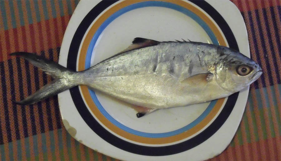 Trachinotus ovatus from the Rome fish market